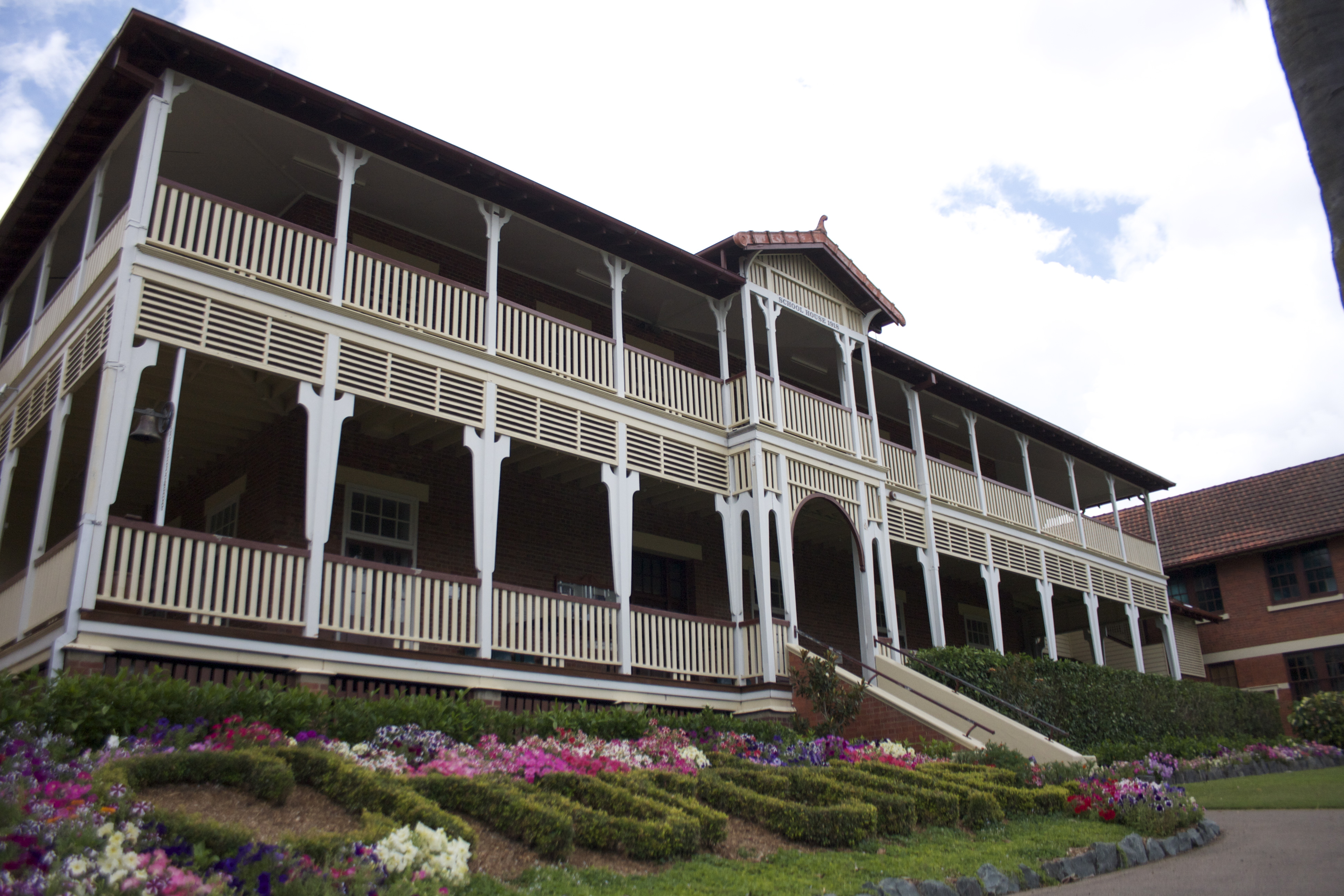 School House, Anglican Church Grammar School. Established in 1918, it is the oldest building on the school's campus.